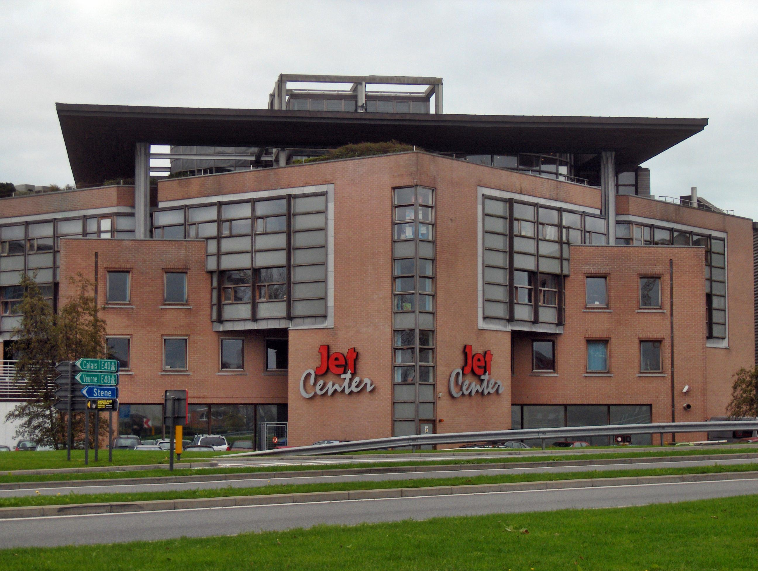 Headquarters (partial view) of Jetair in Ostend, Belgium